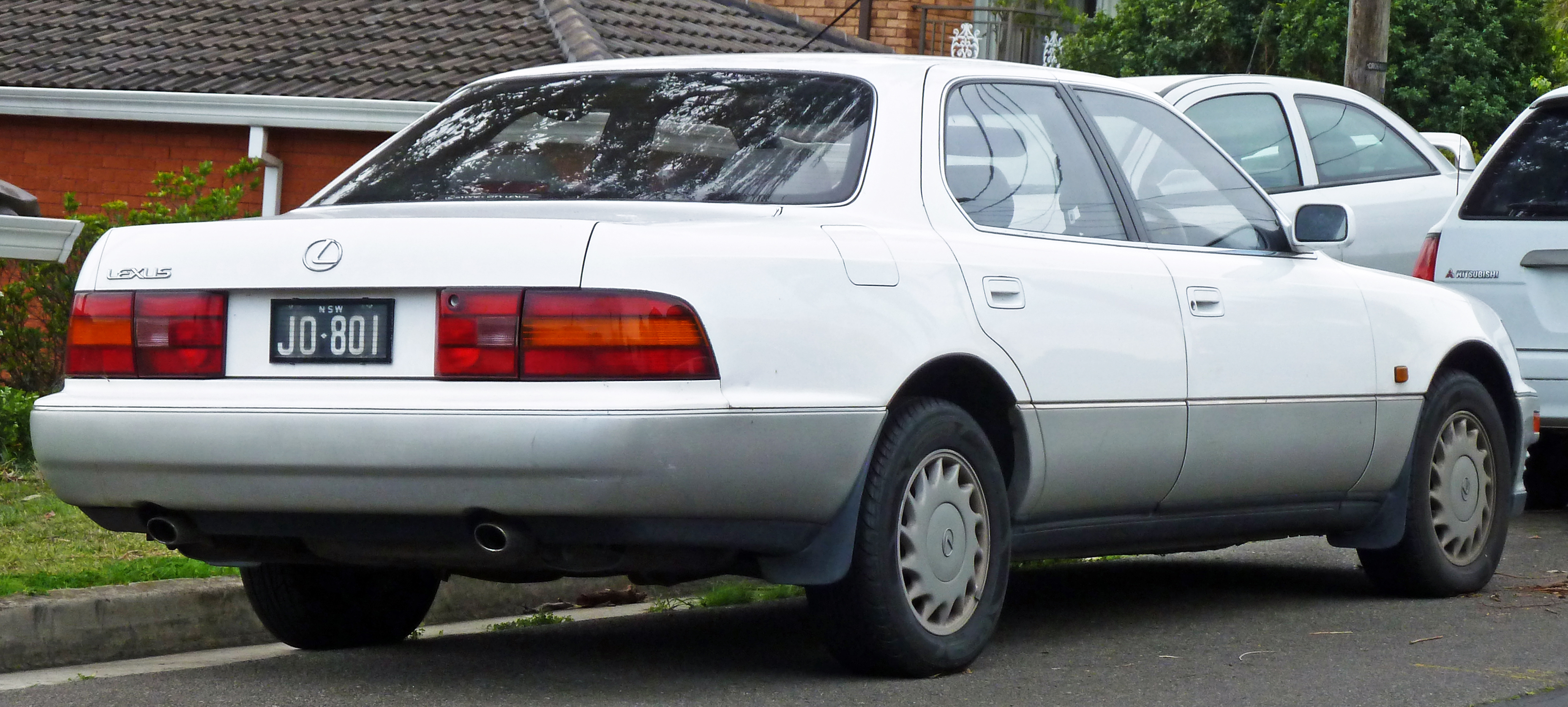 1990–1992 Lexus LS 400 (UCF10R) sedan. Photographed in Taren Point, New South Wales, Australia.